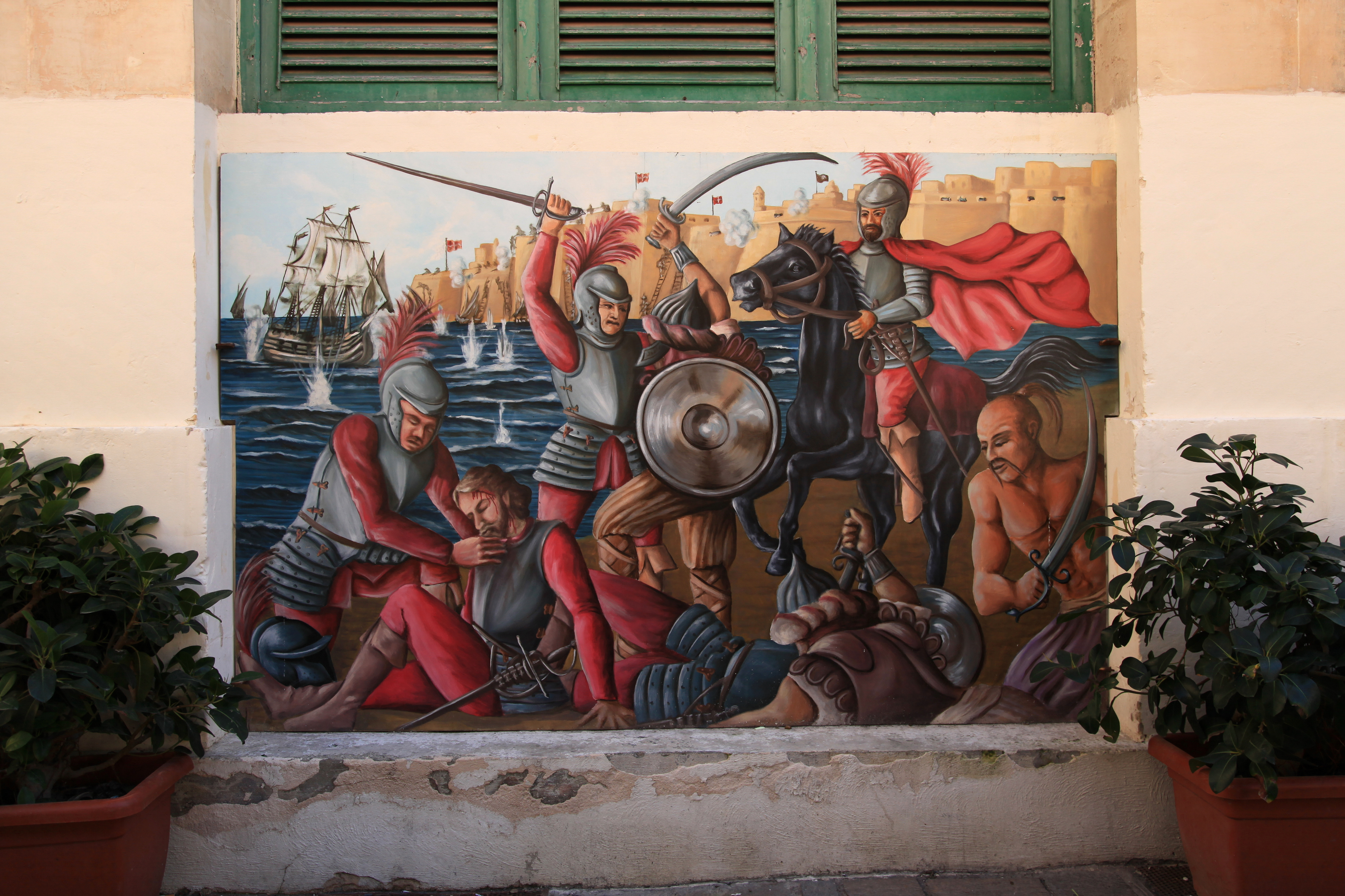 Triq il-Merkanti in Valletta, Malta